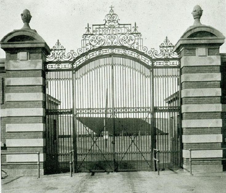 Photograph of Ferry Field gate, University of Michigan, Ann Arbor